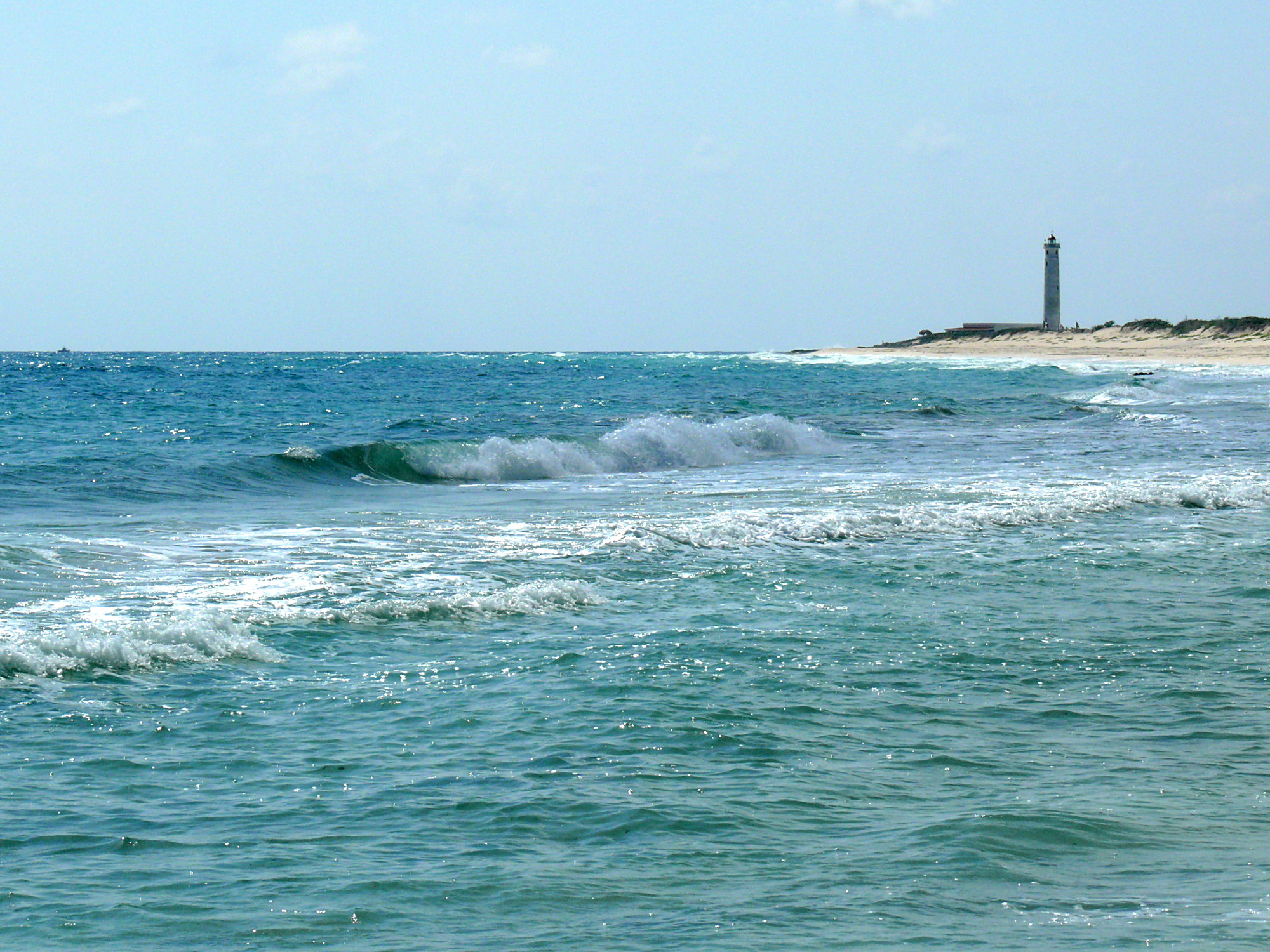 Looking southwest down the windward (eastern) shore towards the Punta Sur (South Point) lighthouse. Photo taken with a Panasonic Lumix DMC-FZ50 on the island of Cozumel in Quintana Roo, Mexico.